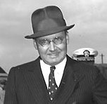 W. John Kenney (1905-1992)